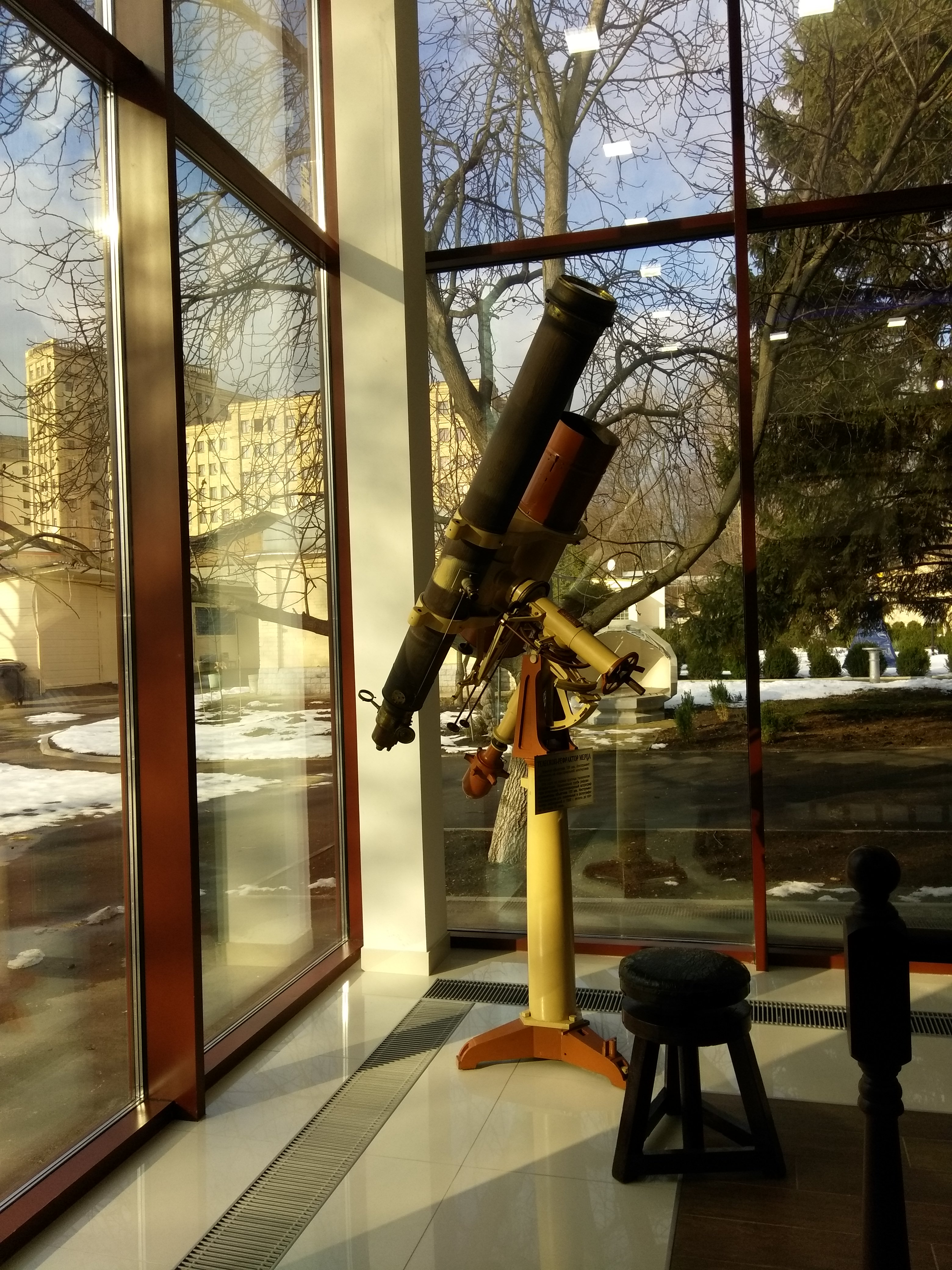 Telescope in the Museum of Astronomy of V. N. Karazin Kharkiv National University